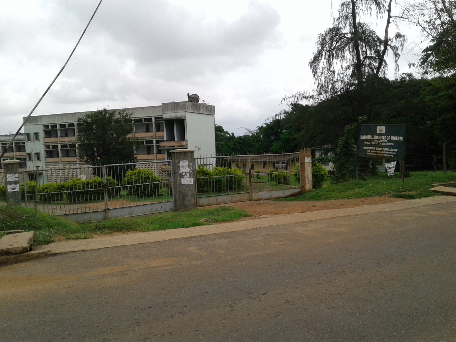 National Archives of Nigeria, University of Ibadan.